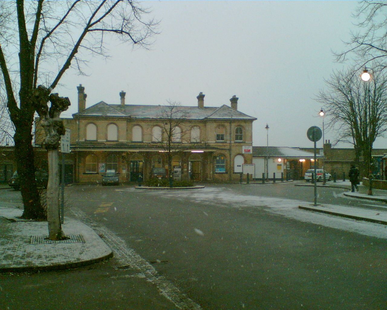 Photographed by StairAl (sockpuppet of LewPot), 09.40 UTC, 25th January 2007. The full-size (and original) version of Aldershot railway station in the snow.jpg. LewPot 21:08, 27 February 2007 (UTC)